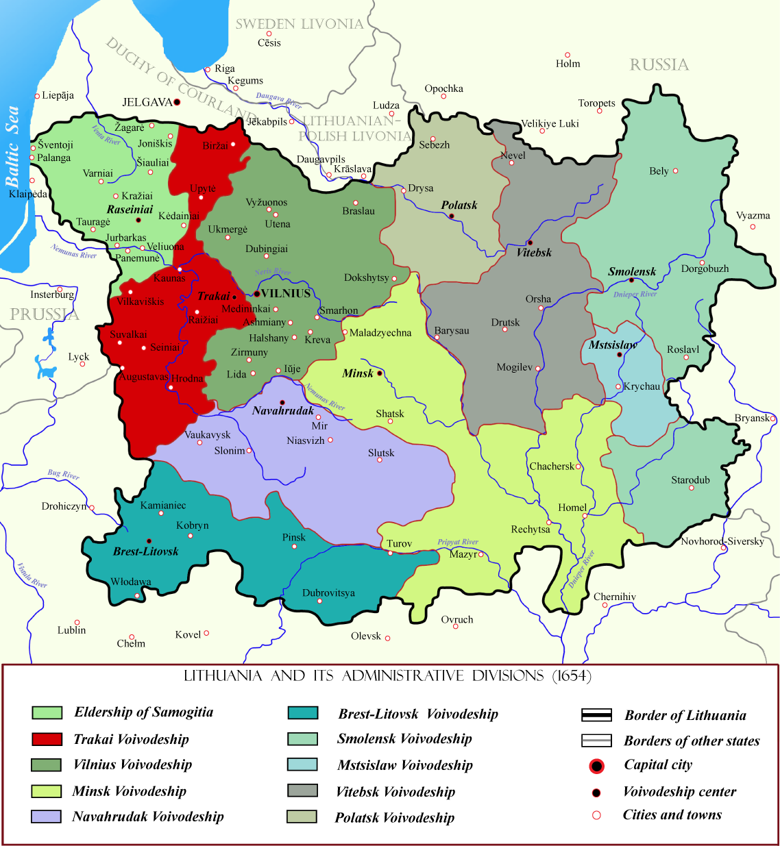 Trakai Voivodeship (red) within Lithuania in the 17th century